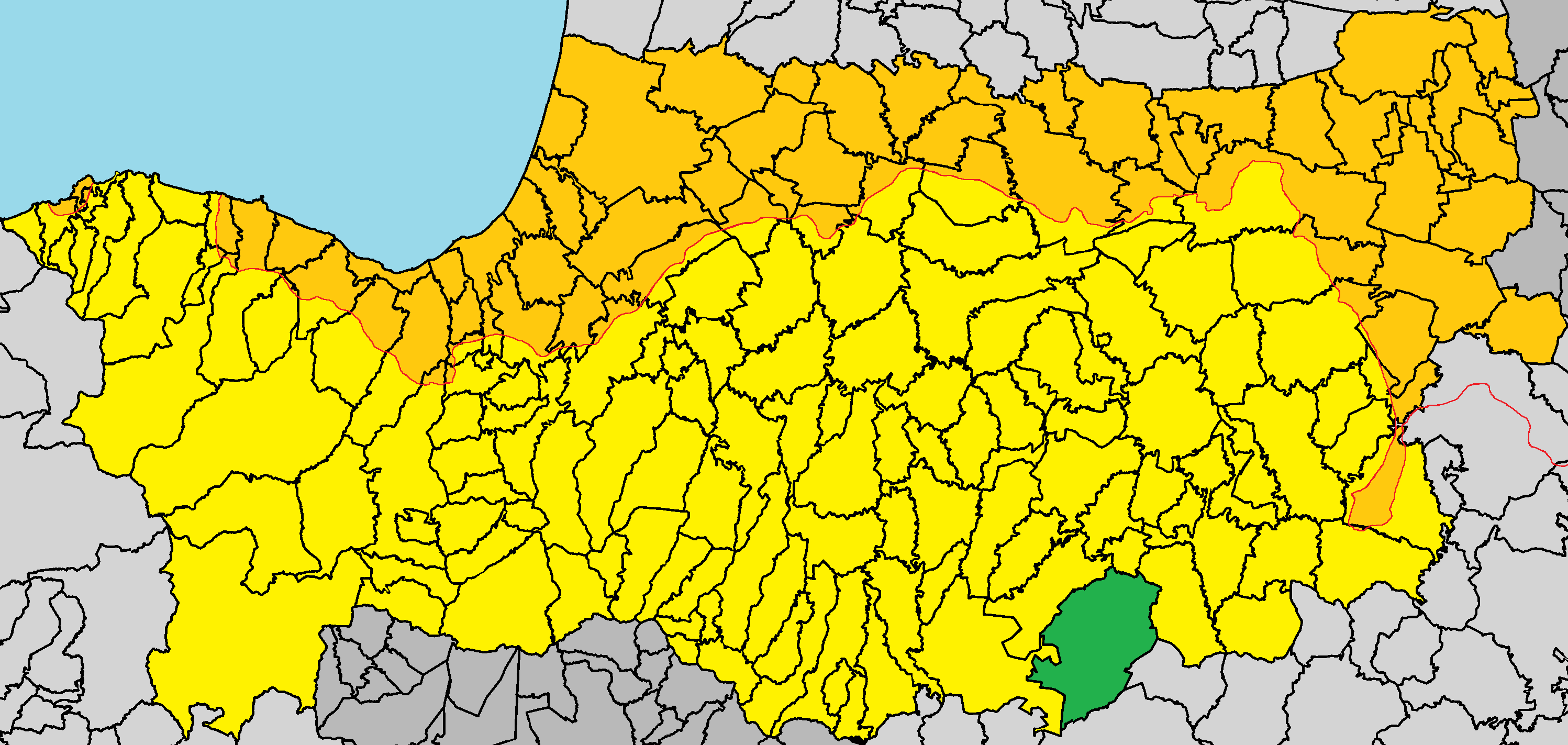 Lythrodontas in Nicosia District.